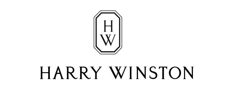 Logo Harry Winston. Harry Winston, Inc. is an American luxury jeweler and producer of Swiss timepieces. Named after its famous founder, the jeweler Harry Winston, the company is headquartered in New York.